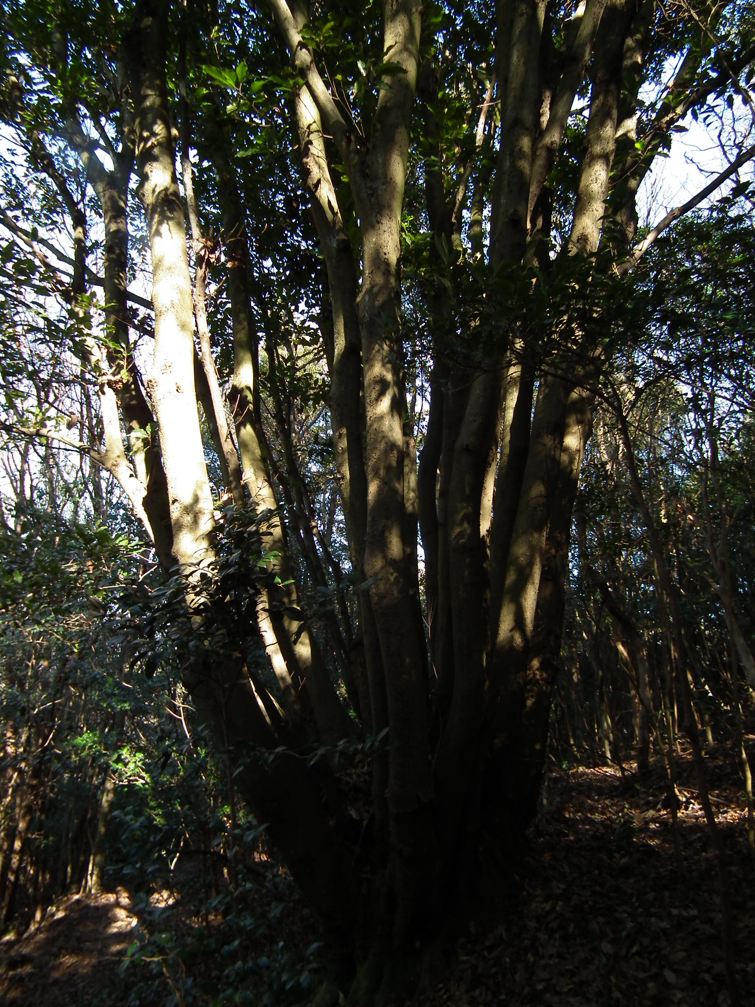 Quercus acuta-Mt.Taisyaku-Kobe